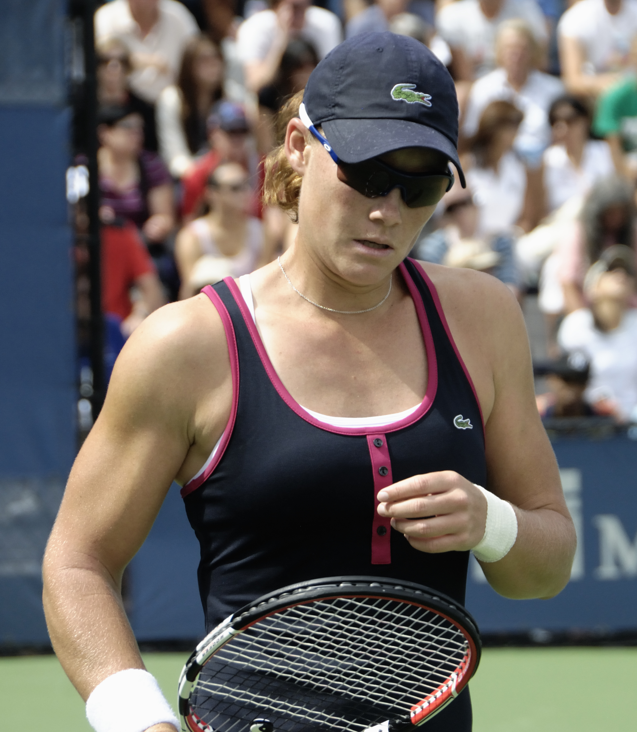 Samantha Stosur at the 2009 US Open